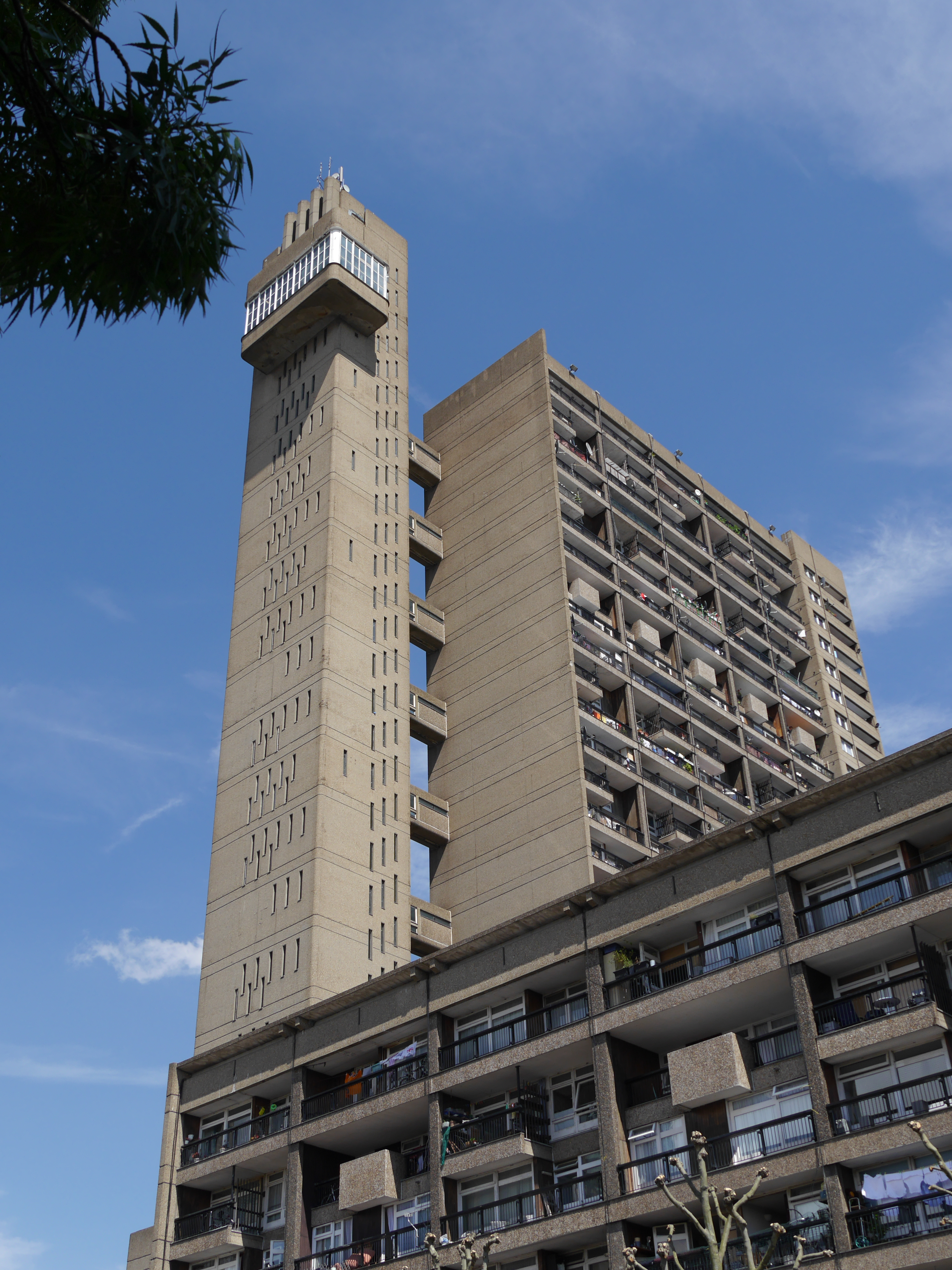 Trellick Tower CHELTENHAM ESTATE Wikidata has entry Q1571416 with data related to this building.